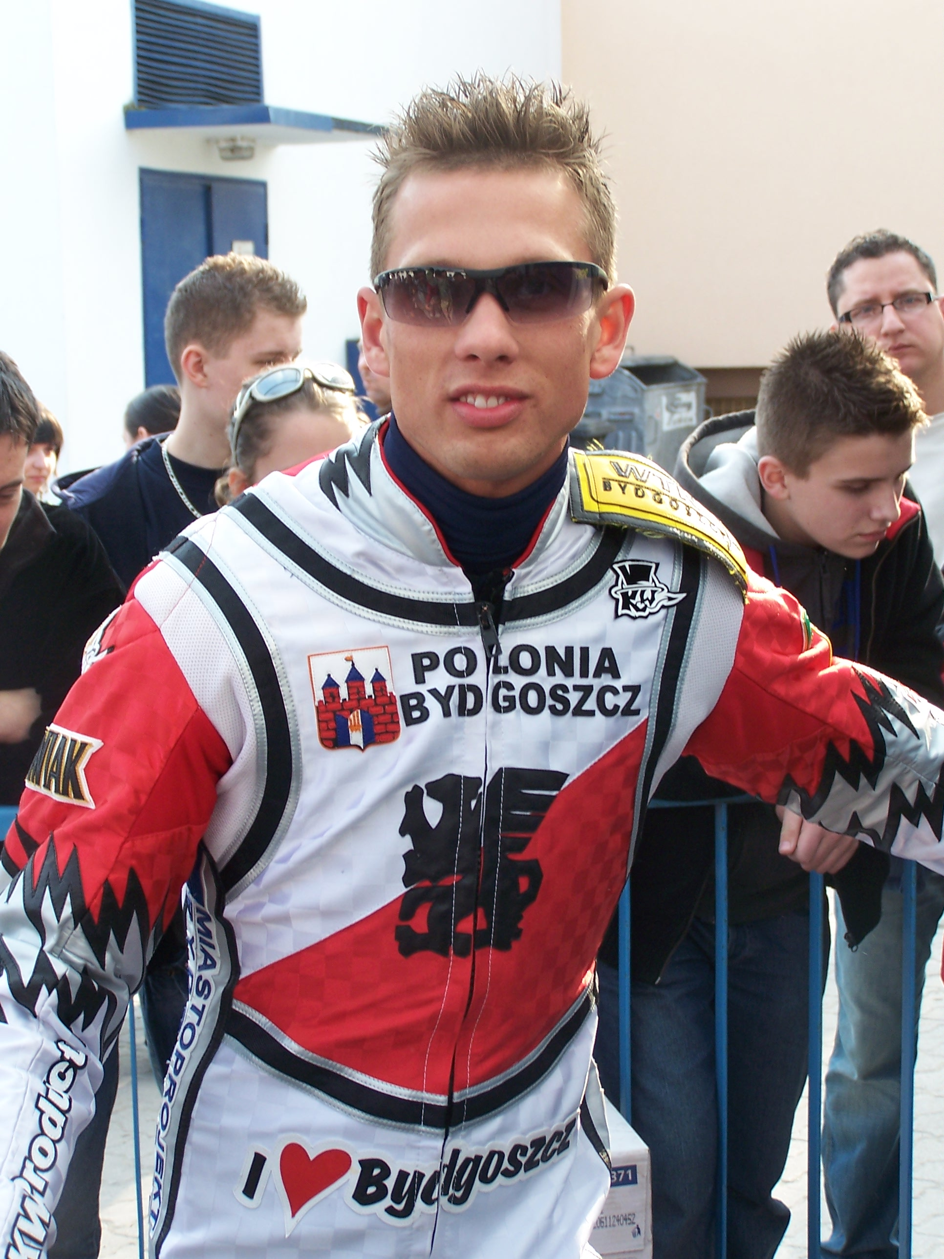 Andreas Jonsson speedway rider from Sweden